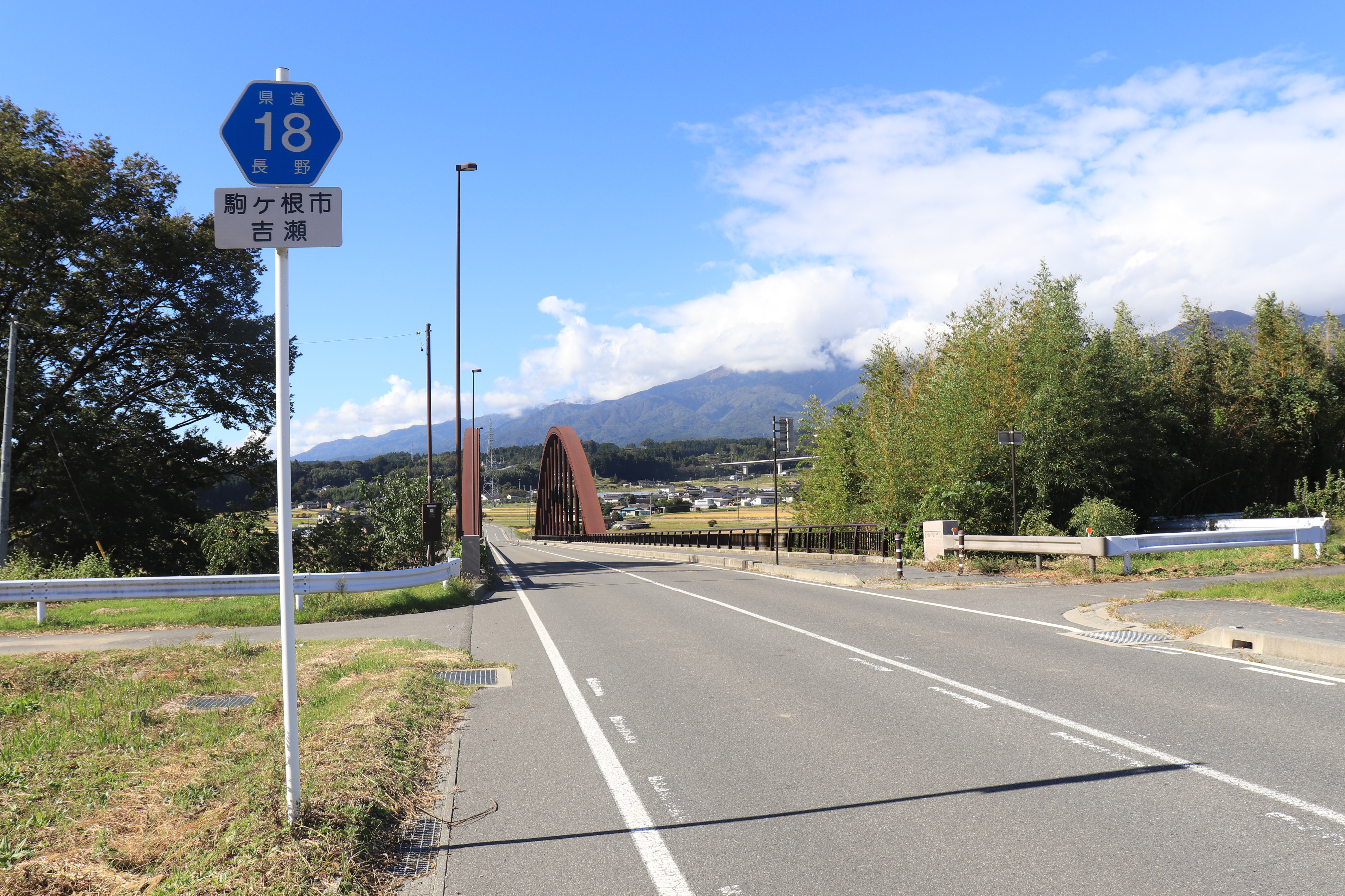 Nagano Prefectural Road Route 18 in Nakazawa, Komagane, Nagano Prefecture, Japan.